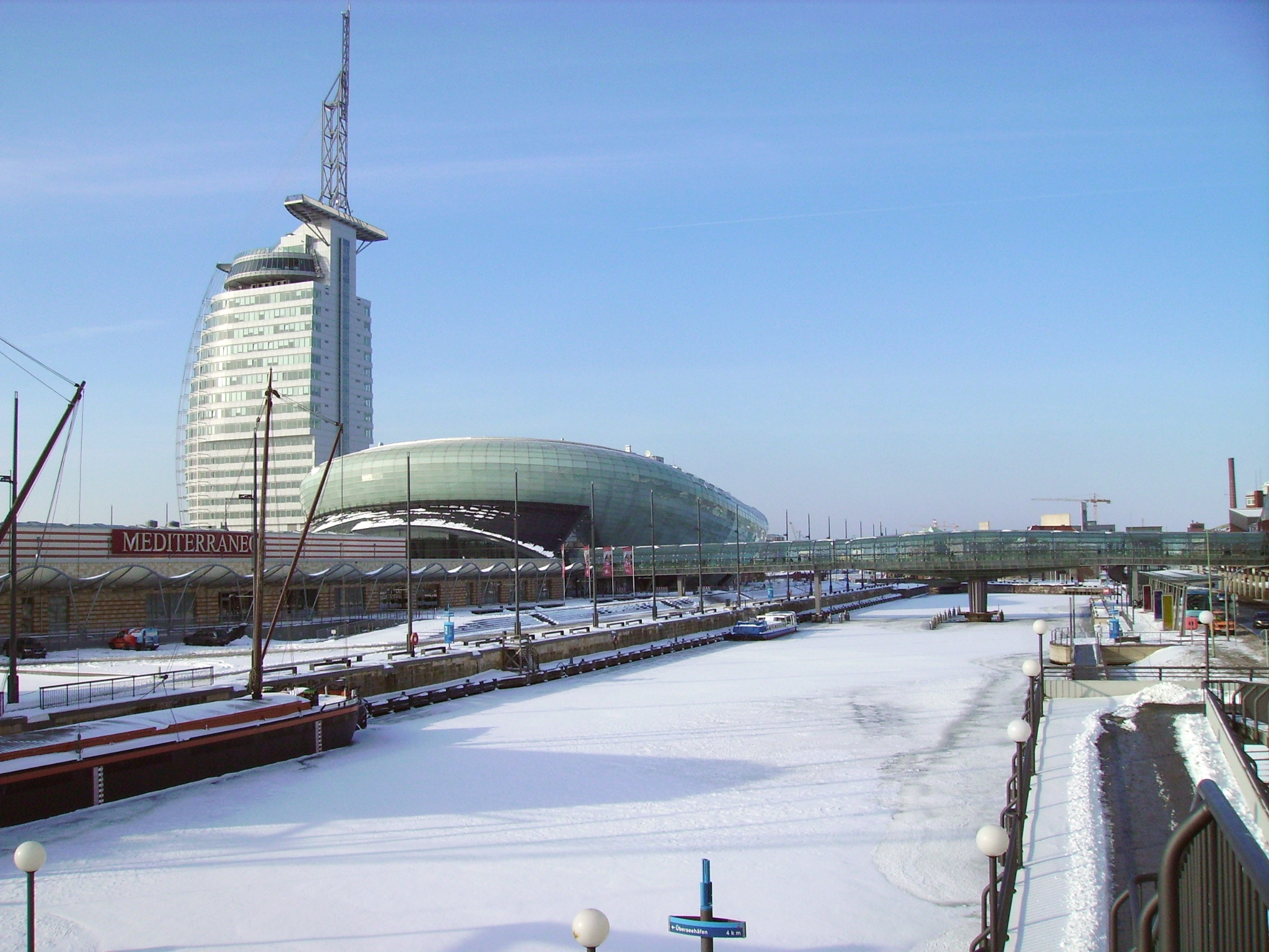 View of the Northerm part of the Old Port in Bremerhaven. On the left, the Atlantic Hotel SailCity and the shopping centre Mediterraneo which is linked to the Columbus Center on the right by a swing bridge. Snow has fallen on the frozen water in the harbour pool.